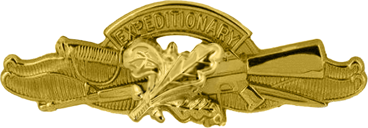 A representation of the United States Navy Expeditionary Warfare Supply Officer Inignia